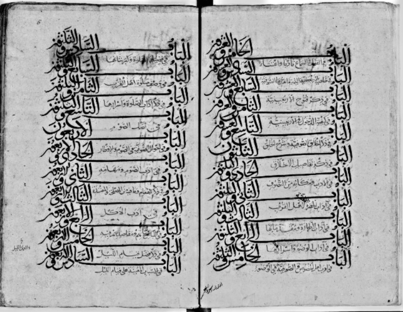 Overview of Chapters in of Awarif al-ma'arif, Ms. Paris, Bibliothèque Nationale, Arabe Nr. 1332